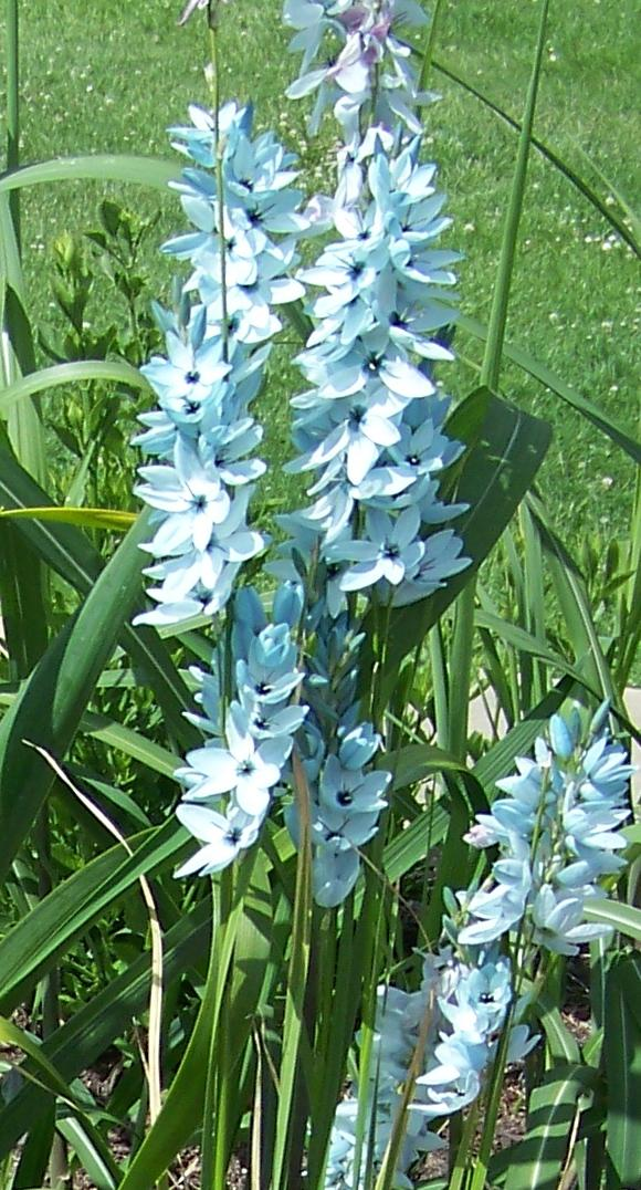 Ixia viridiflora among leaves of Albuca fastigiata, in the Royal Botanical Gardens, Hobart.